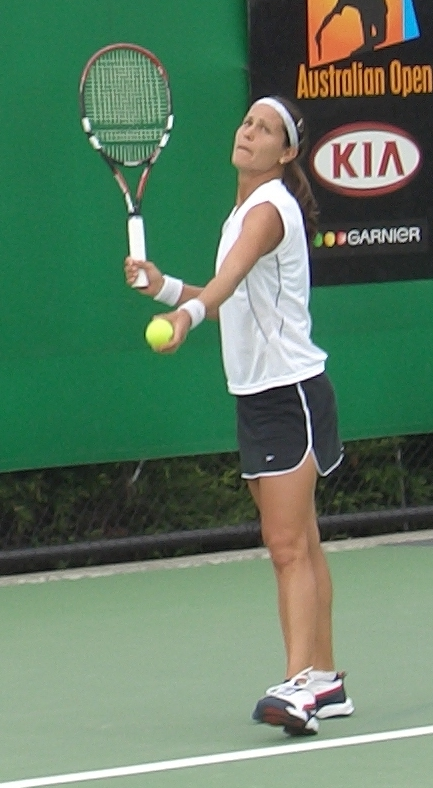 Mariana Díaz-Oliva has a warm-up serve during her first-round match at the 2006 Australian Open.